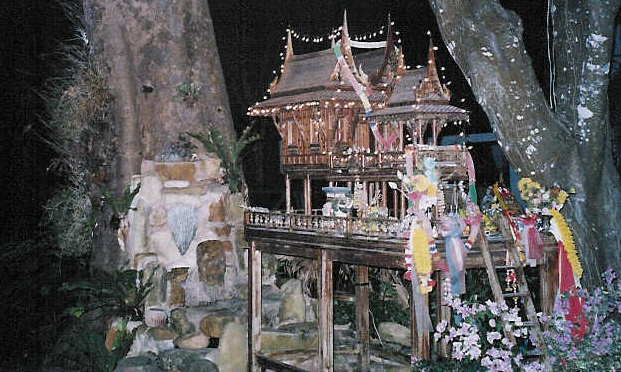 Home of Ghosts in Thailand